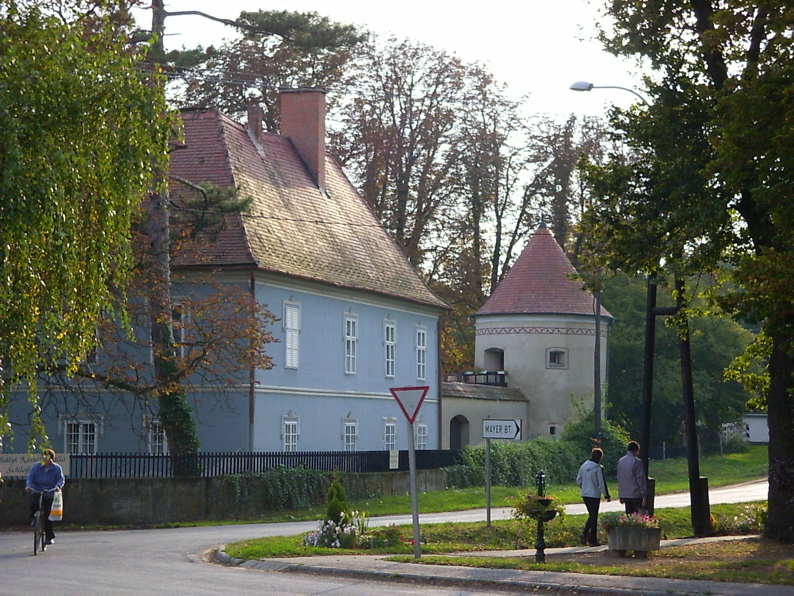 Mihályi, Dőry castle This is a photo of a monument in Hungary, Identifier: 4518